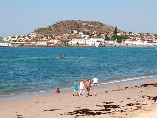 The beach at Saldanha Bay, South Africa